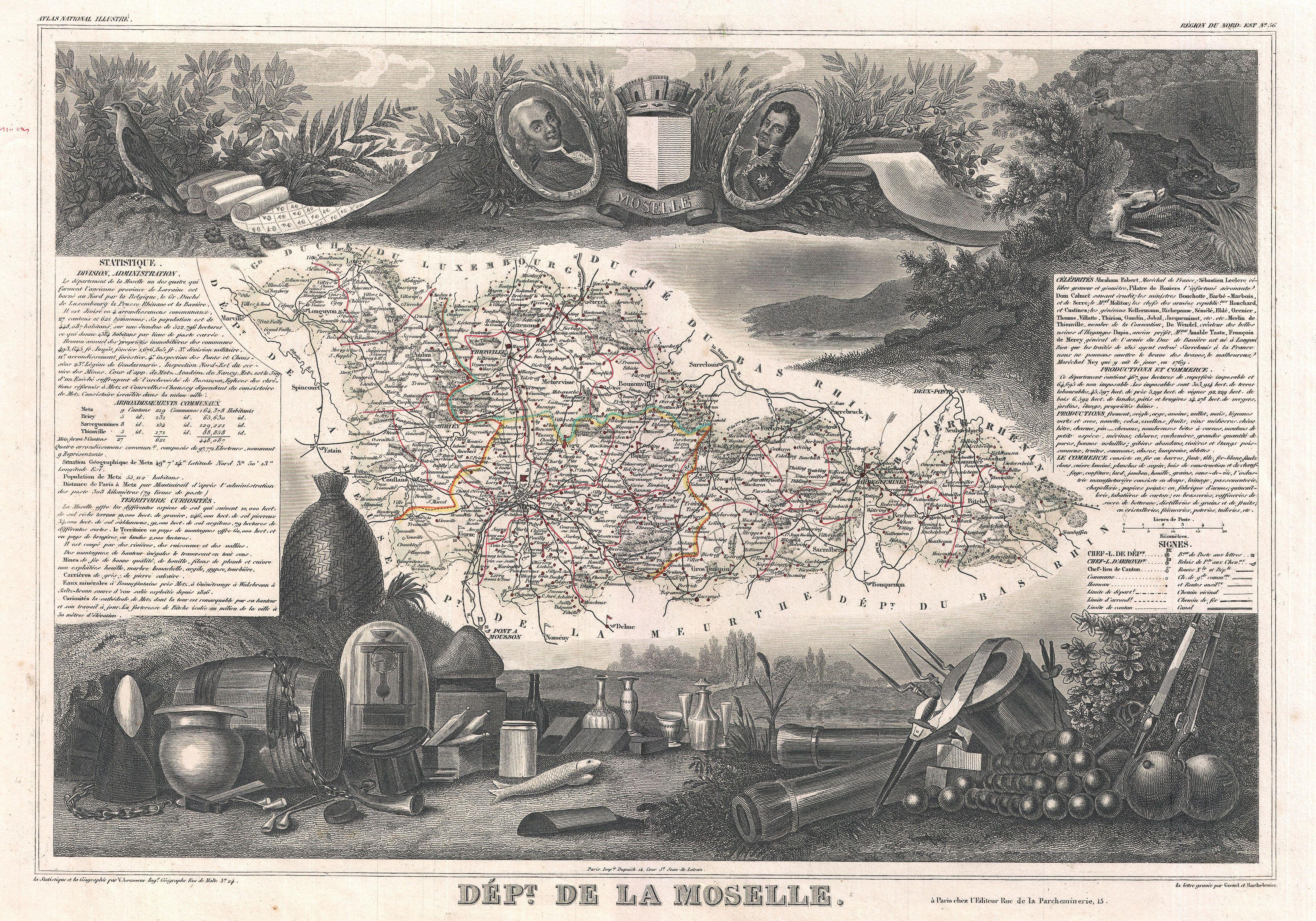 This is a fascinating 1852 map of the French department of Moselle, France. This area, part of the Alcase-Lorraine wine region, is known for its production of wines by the same name, the majority of which are white. The map proper is surrounded by elaborate decorative engravings designed to illustrate both the natural beauty and trade richness of the land. There is a short textual history of the regions depicted on both the left and right sides of the map. Published by V. Levasseur in the 1852 edition of his Atlas National de la France Illustree.